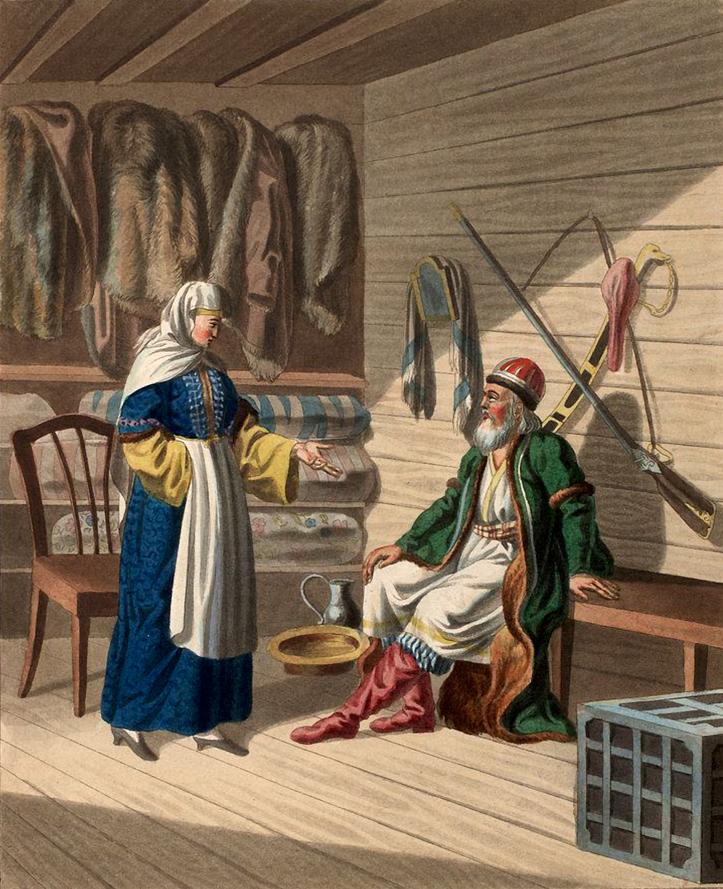 Greben Cossacks